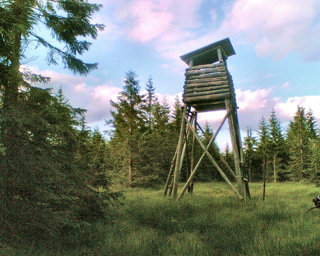 High seat on top of Cicha Równia in the Jizera mountains.